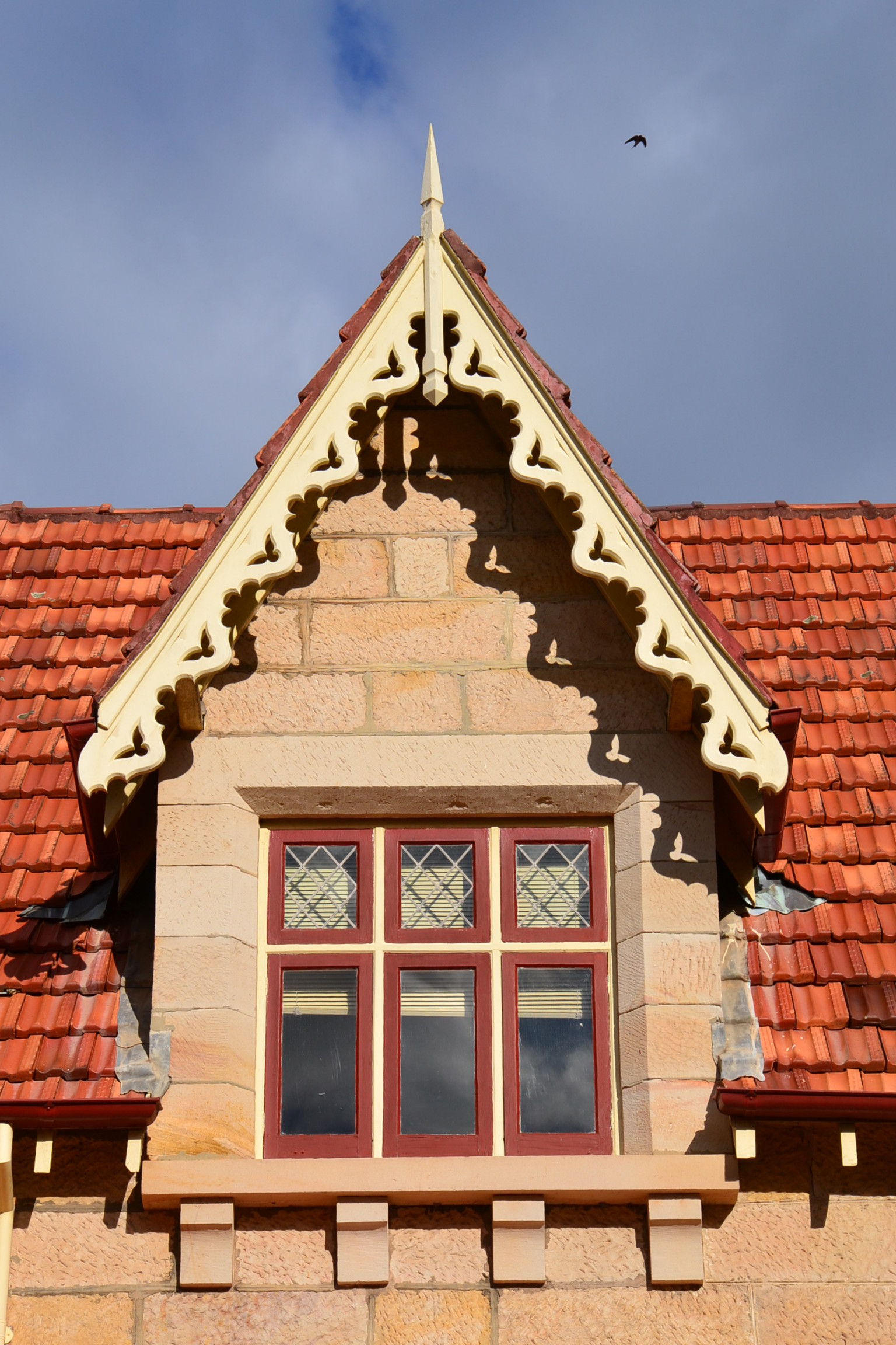 Gabled wall dormer, Greycliffe House, Sydney, Australia